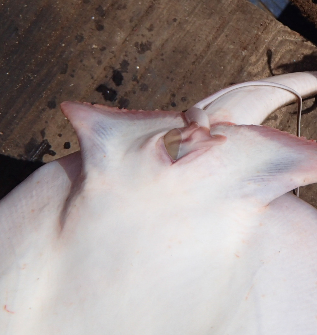 Birth of a ray Gambia